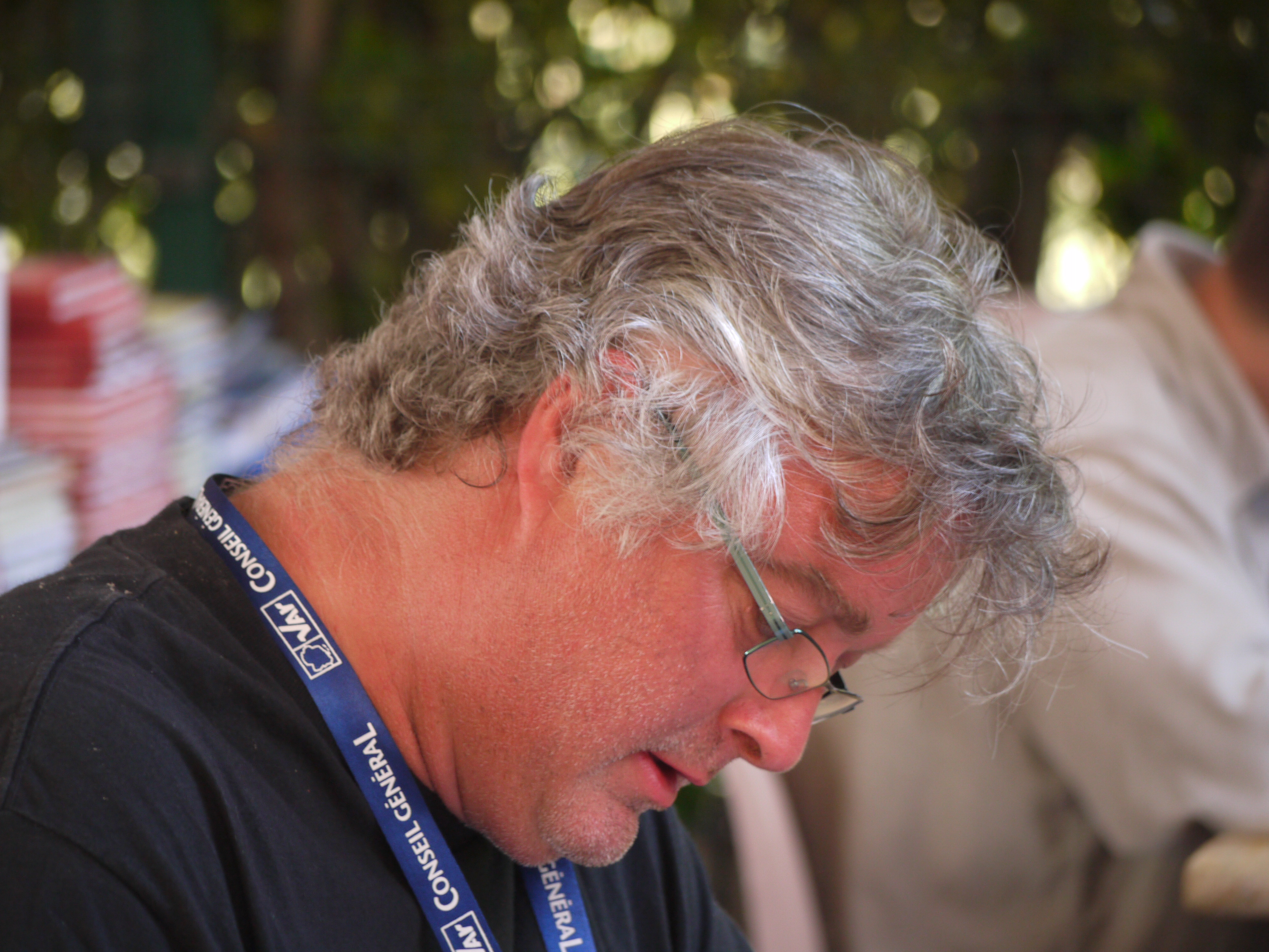 Photograph taken during the 2009 edition of the Comic Strip Festival of Sollies Ville in France. - OpenStreetMap(Info)